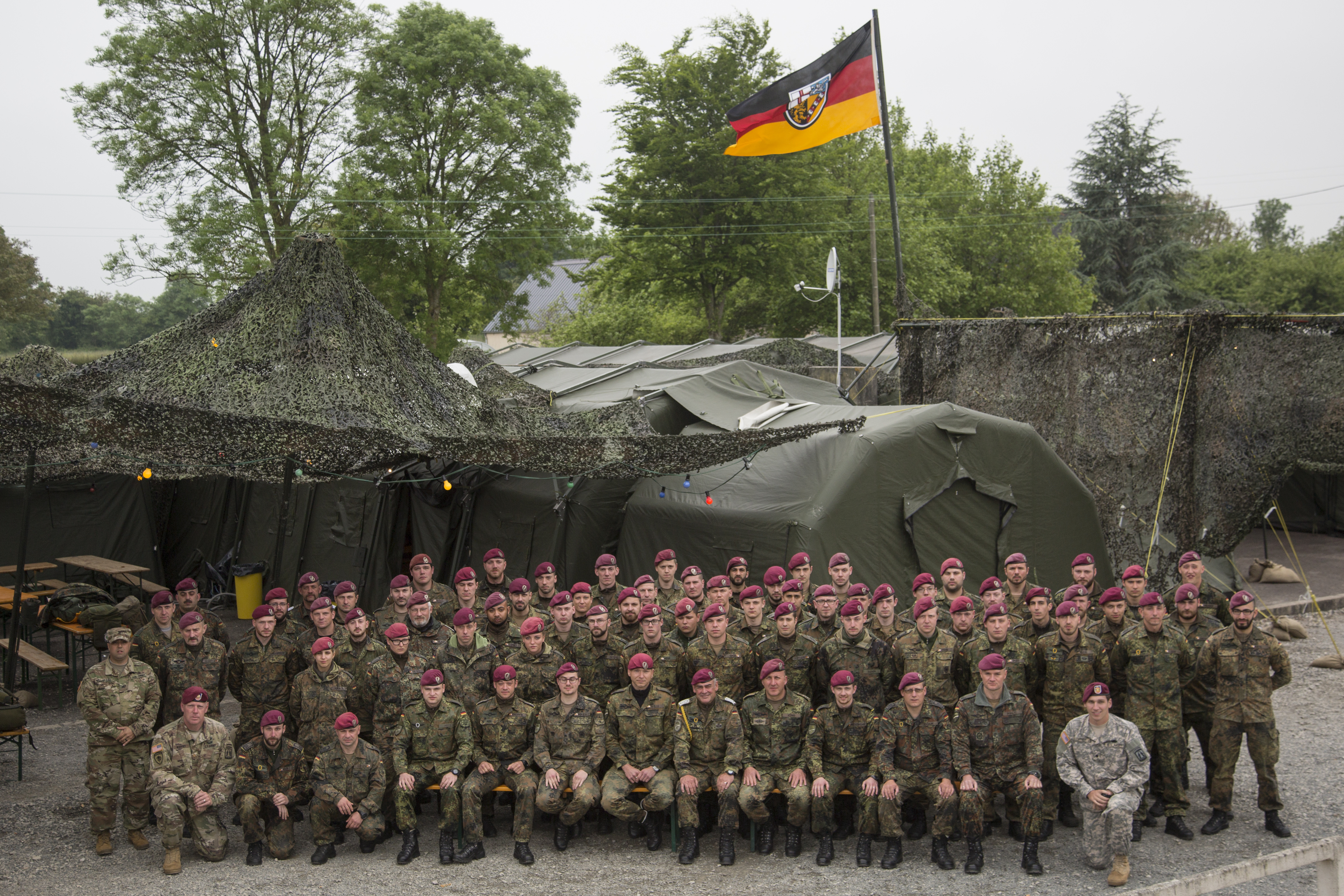 Soldiers from the German Luftlandebrigade 1 (LLB1) pose for a group photo while participating in the 72nd D-Day Landing Anniversary in Normandy to commemorate the sacrifice of Soldiers during World War II, Picauville, France June, 4. 2016. LLB1 conducted an airborne operation with USA, and French service members as part of the commemoration activities. The airborne operation demonstrated the interoperability and partnership of these nations.